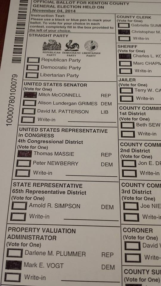 Completed ballot for the 2014 Election for Covington Kentucky showing a vote for Senator Mitch McConnell and Representative Thomas Massie